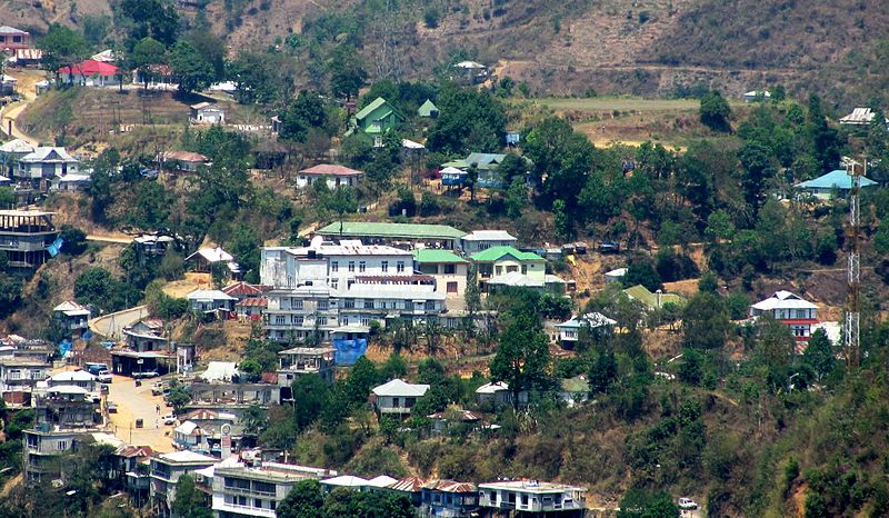 New Serchhip, showing DC Office at IOC Veng, Lal Thanhawla HSS at Venglai, etc.